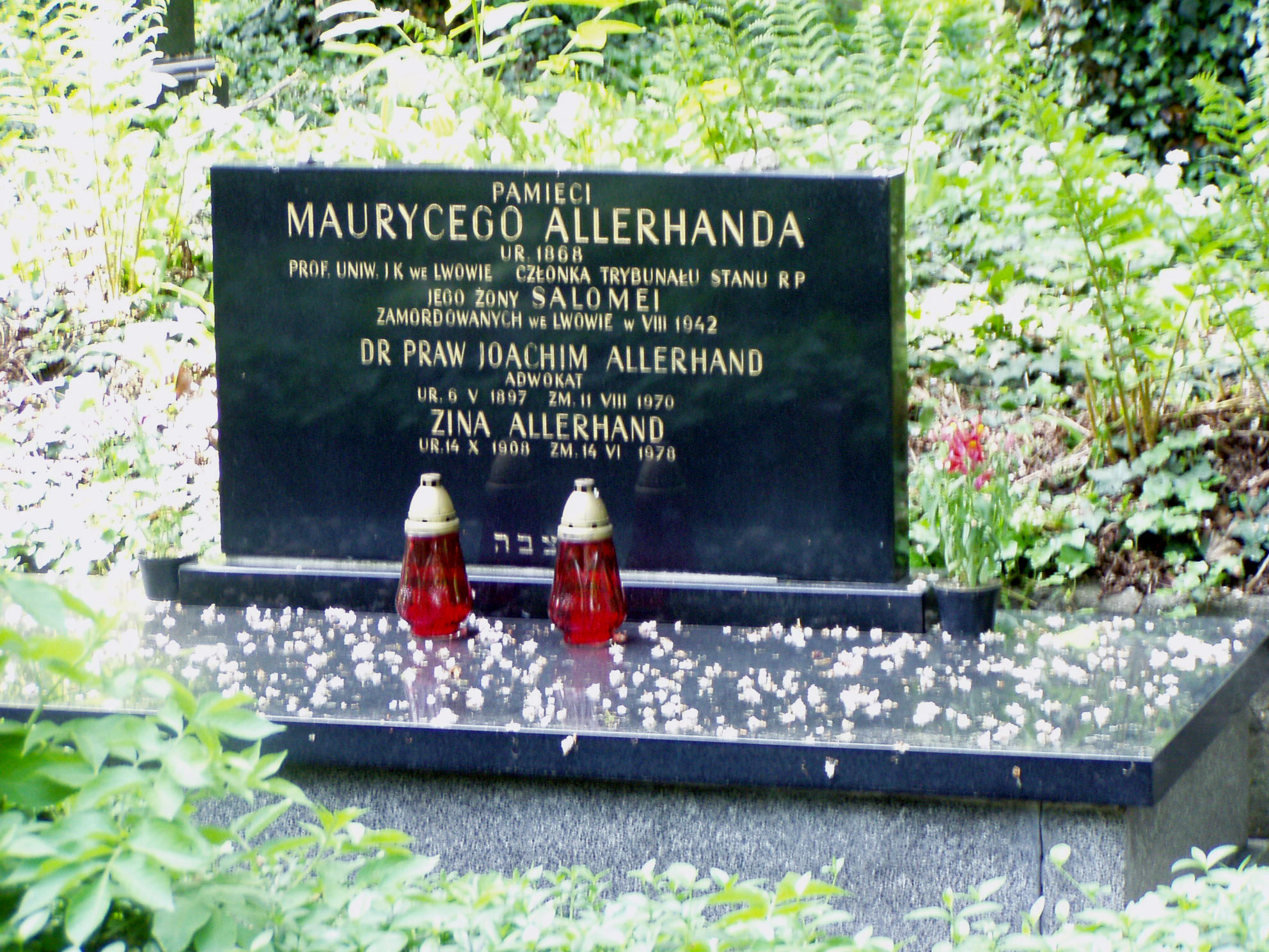 Grave of Allerhand Family.